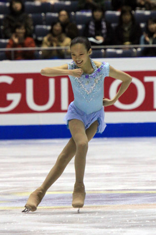 Christina Gao at the 2009-2010 Junior Grand Prix Final.